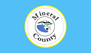 Flag of Mineral County, Nevada